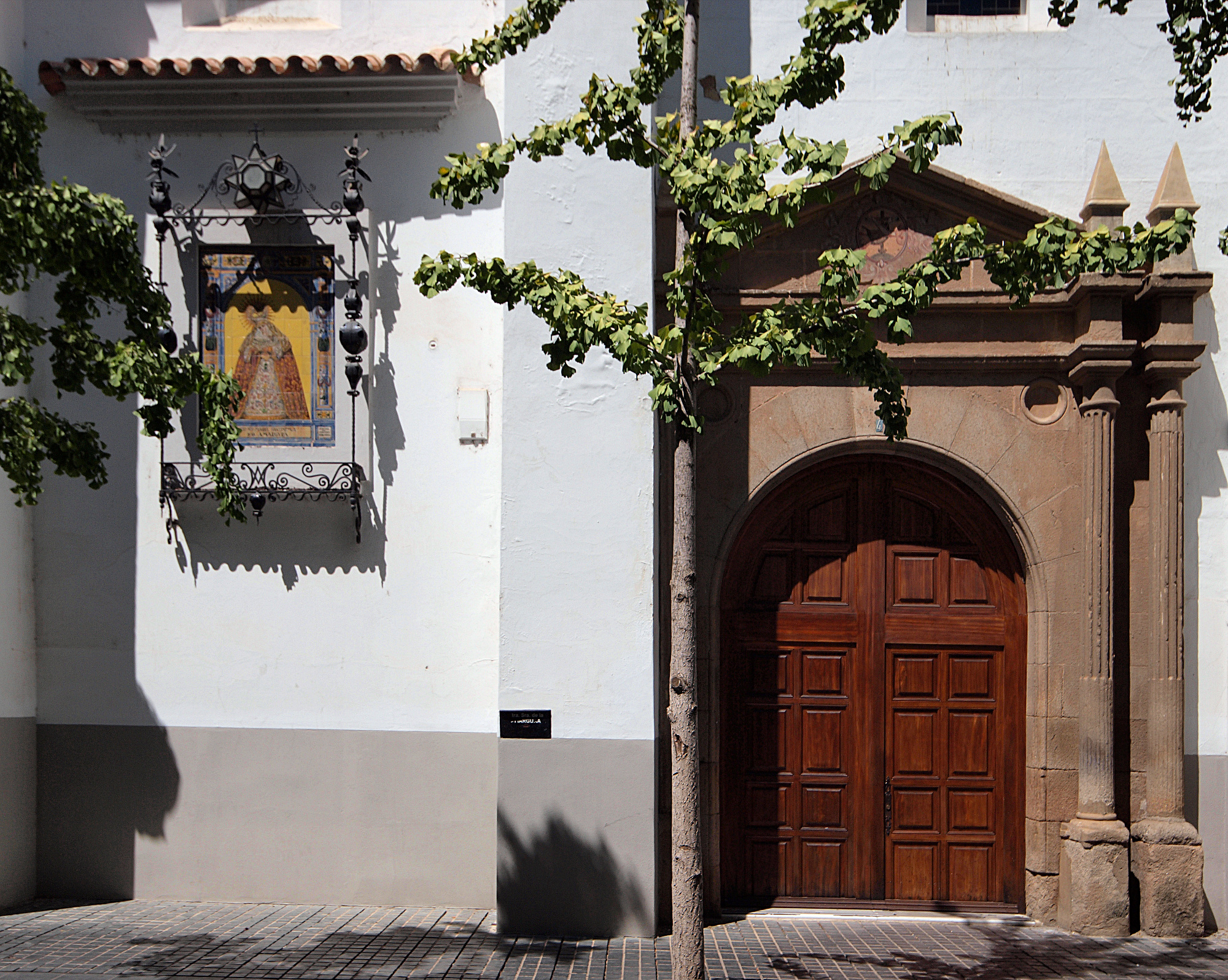 Badajoz, Plaza Lopez Ayala and Convent of Descalzas